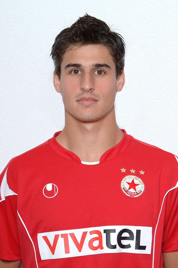 Filipe Machado at CSKA Sofia in 2008.